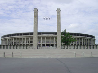 Main entrance of Berlin'S Olympic stadium